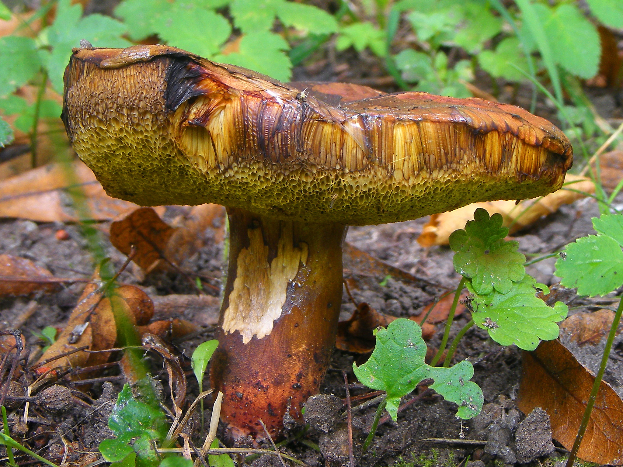 Boletus pulverulentus - mature specimen.